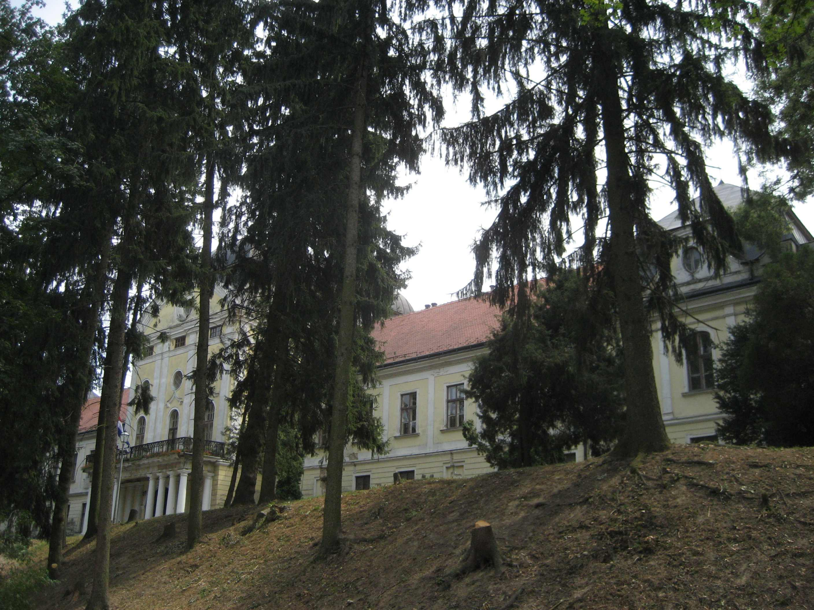 Castle in Virovitica, Croatia